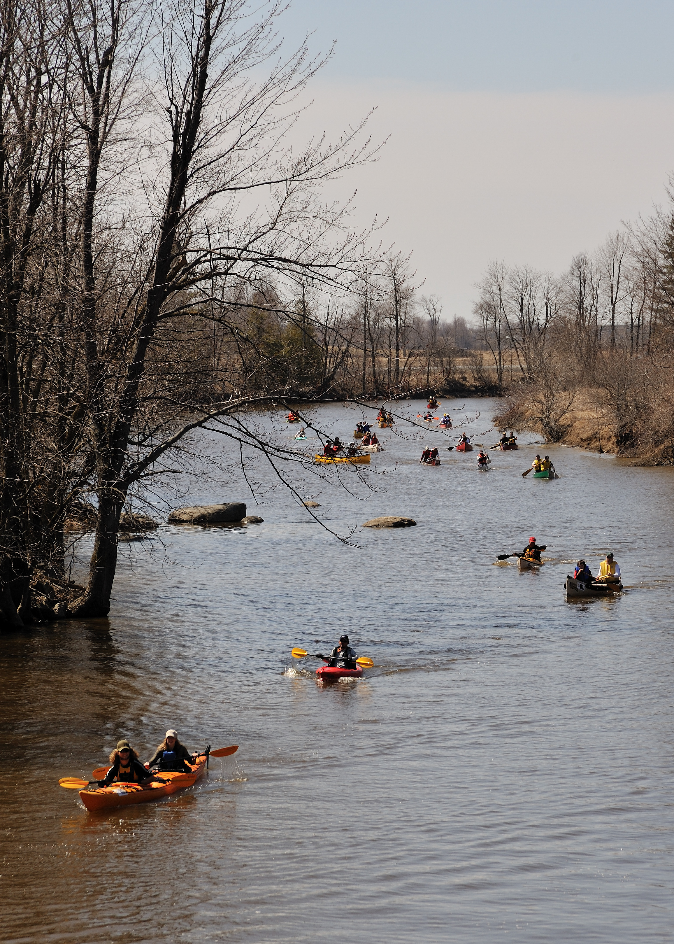 Annual canoe race down the Raisin River in South Glengarry, Ontario, Canada.